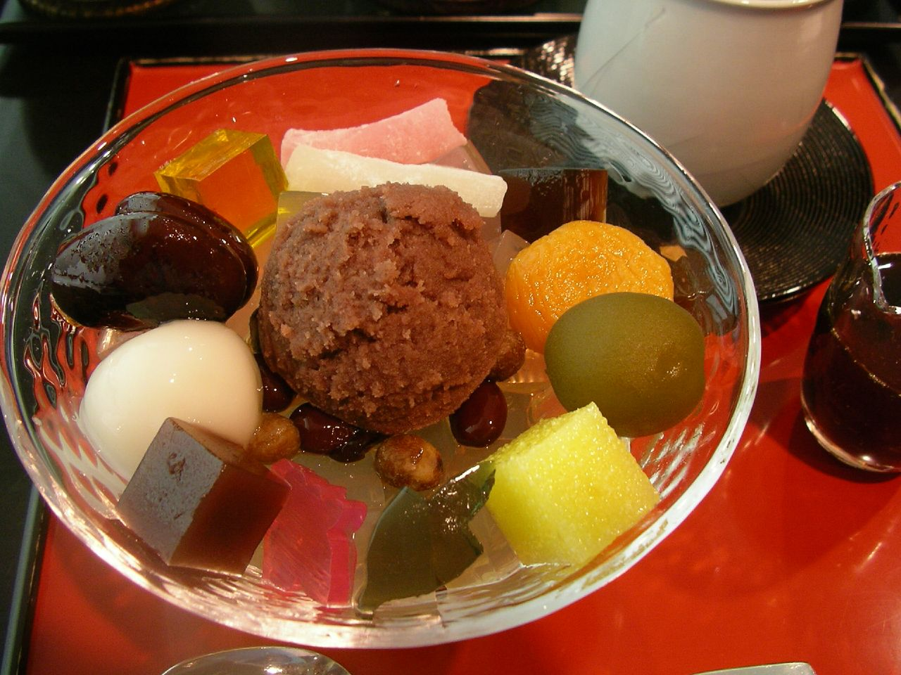 Anmitsu, syrup and tea